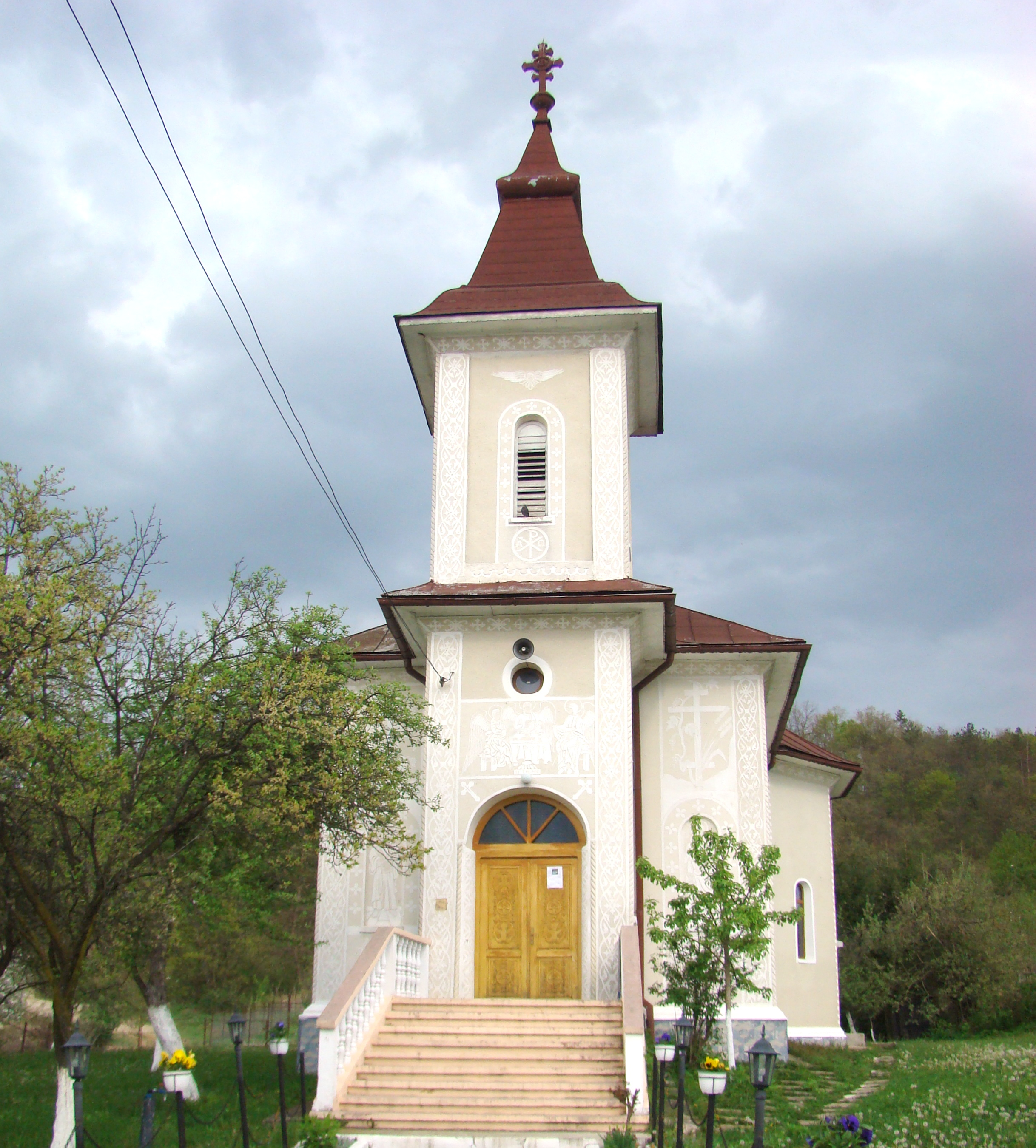 Poarta Sălajului, Sălaj county, Romania